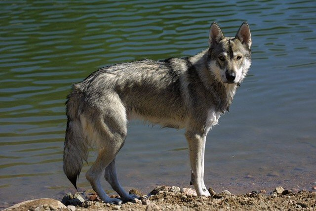 Tamaskan dog